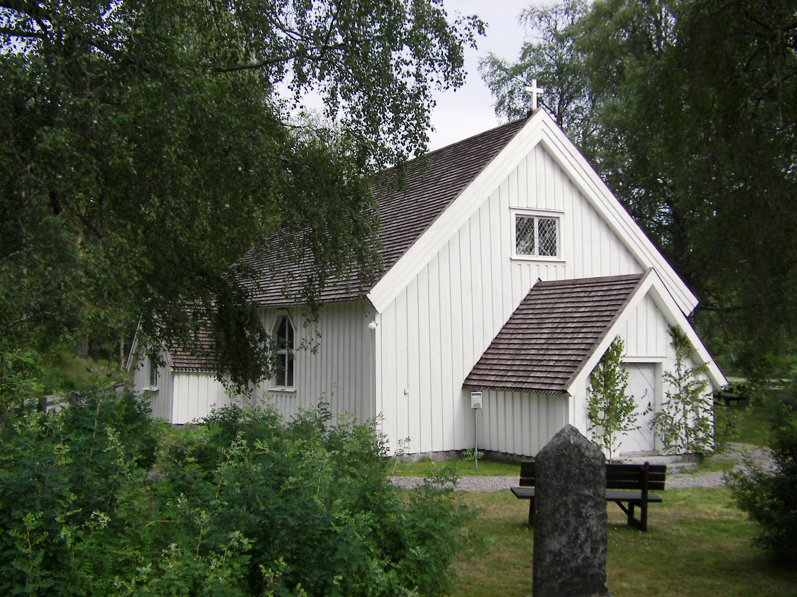 Galtström church south of Sundsvall, Sweden